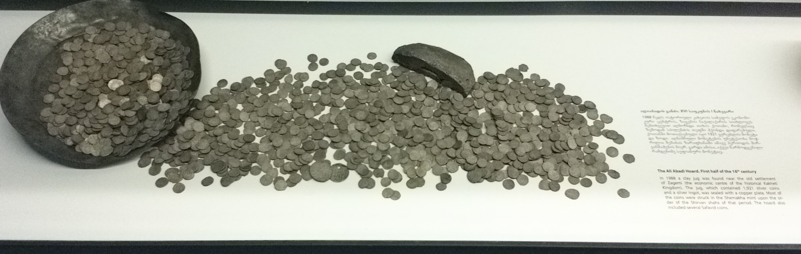 The Ali Abadi Hoard